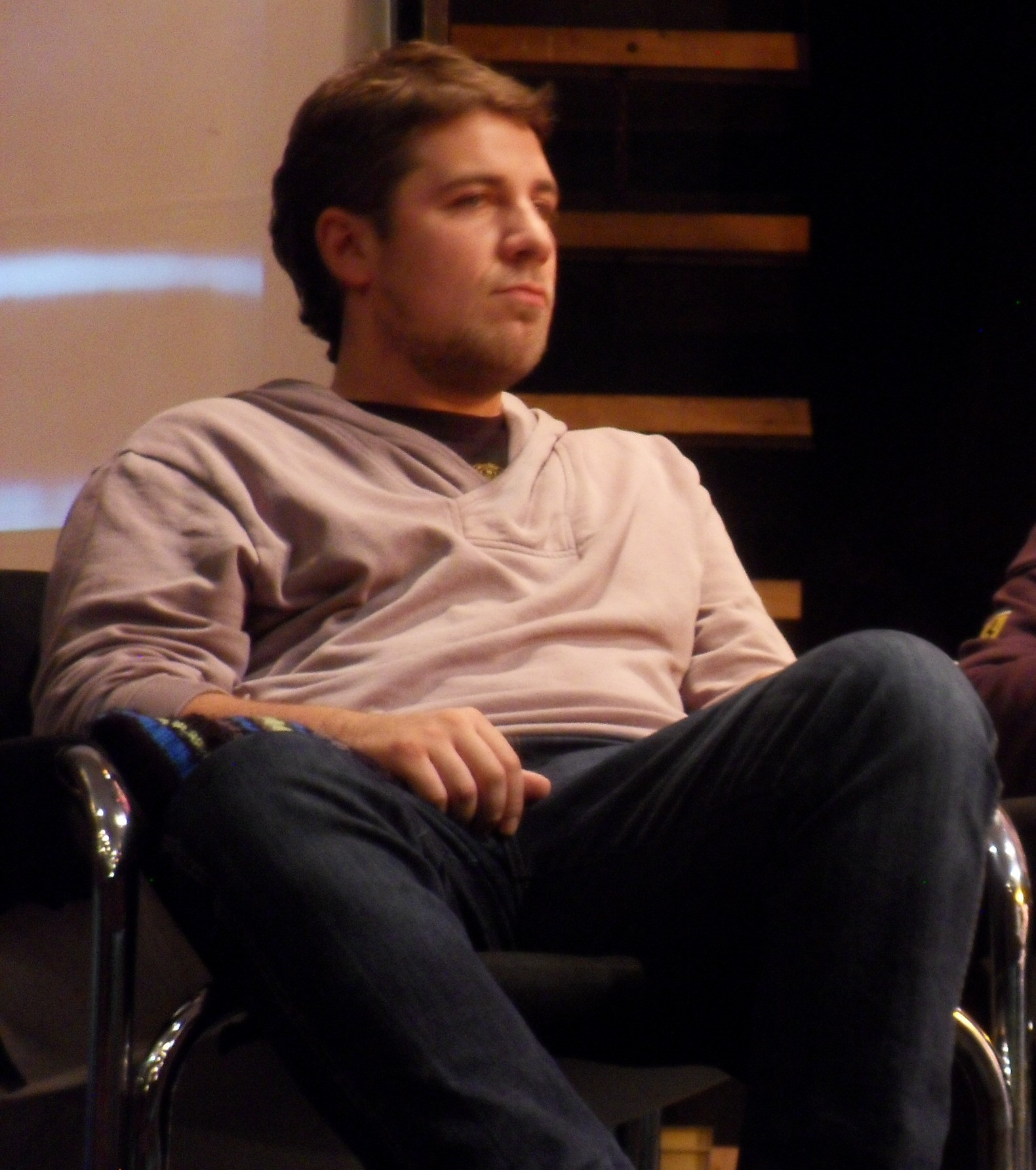 CzechTREK 2013, Kulturní centrum Novodvorská, Prague, Czech Republic Personality rights warningAlthough this work is freely licensed or in the public domain, the person(s) shown may have rights that legally restrict certain re-uses unless those depicted consent to such uses. In these cases, a model release or other evidence of consent could protect you from infringement claims.